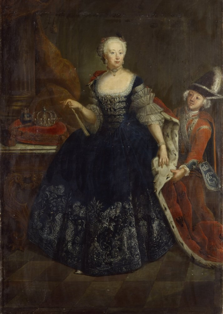 Elisabeth Christine of Brunswick-Bevern (1715-1797), queen of Prussia